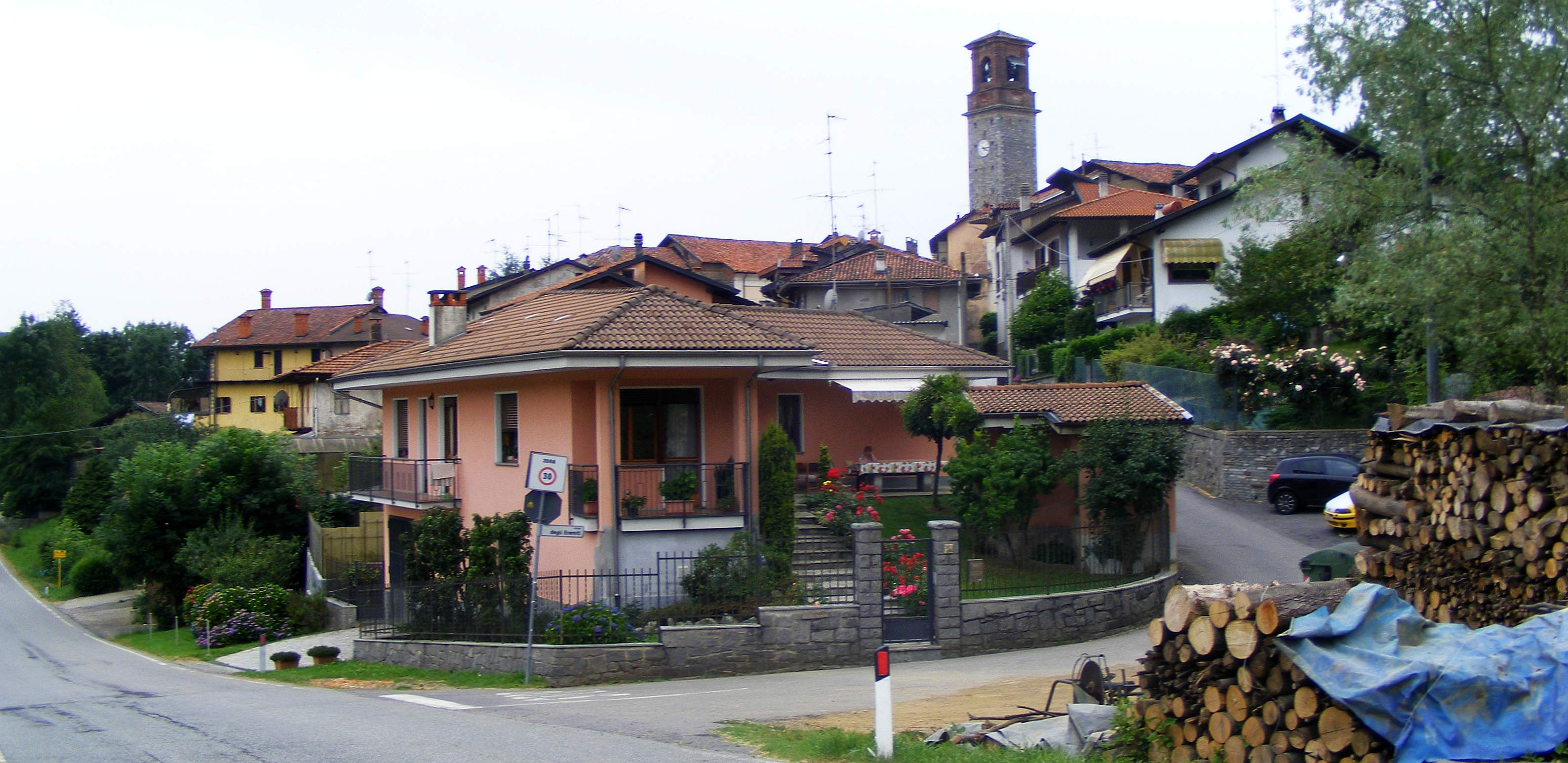 San Giuseppe di Casto (Andorno, BI, Italy): panorama